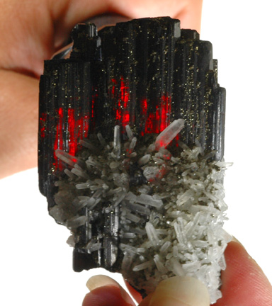 Hübnerite, Quartz Locality: Huayllapon Mine (Huallapon Mine), Pasto Bueno District, Pallasca Province, Ancash Department, Peru (Locality at ) Size: 6.6 x 4.2 x 1.6 cm. This is a very attractive association specimen from one of the most famous classic Peruvian localities. There are several sharp, lustrous, prismatic, parallel growth crystals of Hubnerite beautifully associated with slender, colorless gemmy Quartz crystals and a minor dusting of Pyrite. The finest aspect to this specimen is the fact that when it is backlit, it shows the classic blood-red hue that made these specimens so popular 30 years ago. Ex. Richard Kosnar Collection.